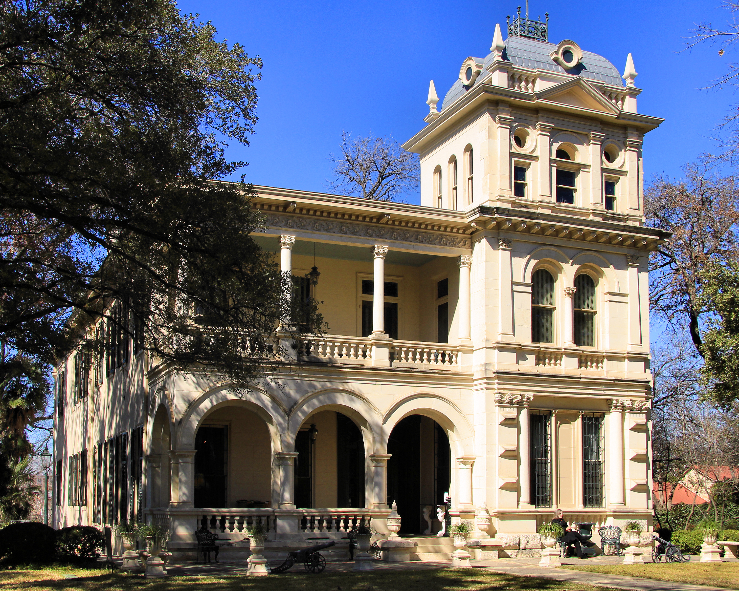 The Norton-Polk-Mathis House, also known as Villa Finale, in San Antonio, Texas, United States. The house was designated a Recorded Texas Historic Landmark in 1971 and is a contributing property to the King William Historic District, which is listed on the National Register of Historic Places. The house is also a National Trust Historic Site, the only one in Texas.